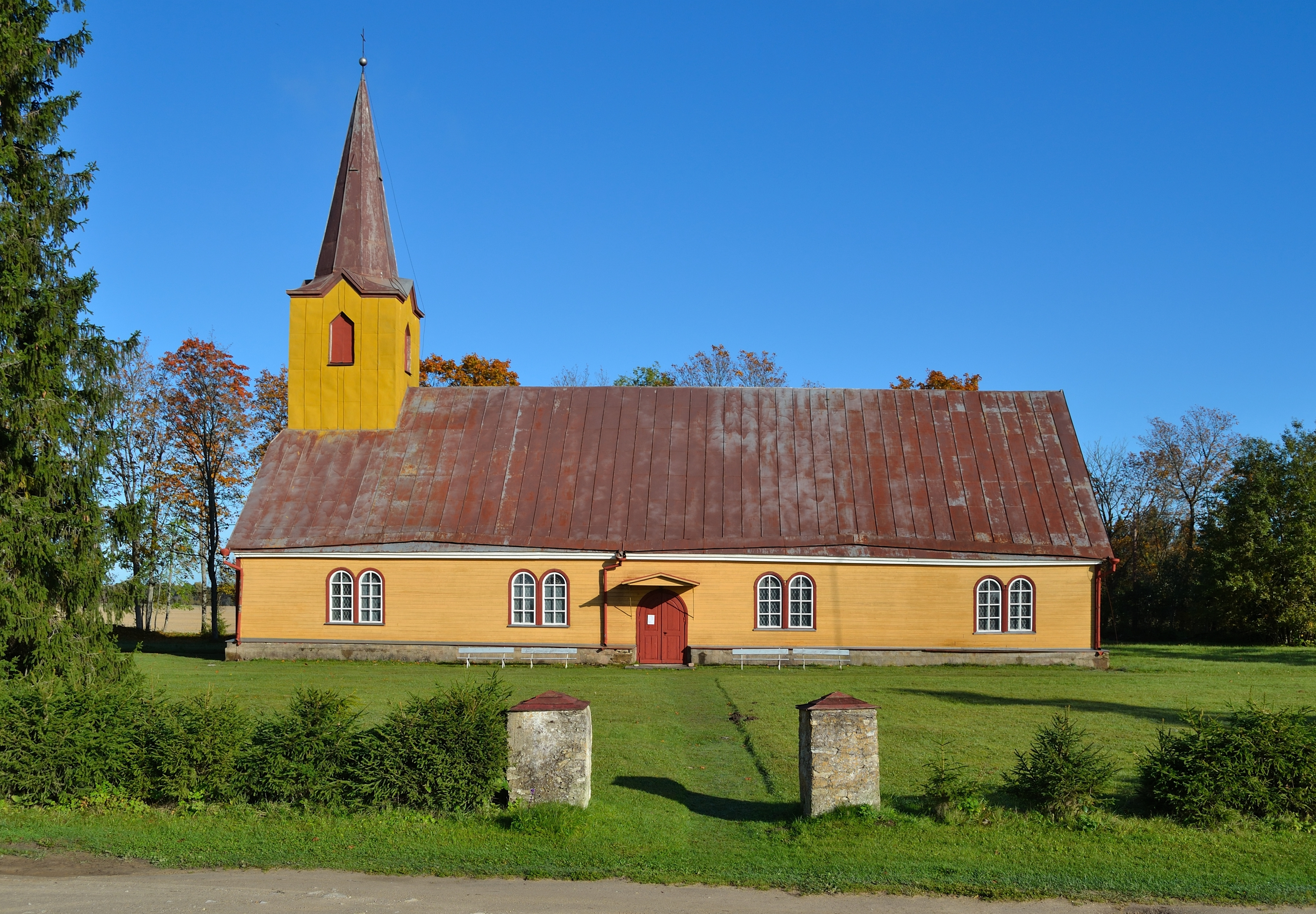 St. Peter's lutherian church in Kehtna Parish This photograph was taken with a Nikon D3100